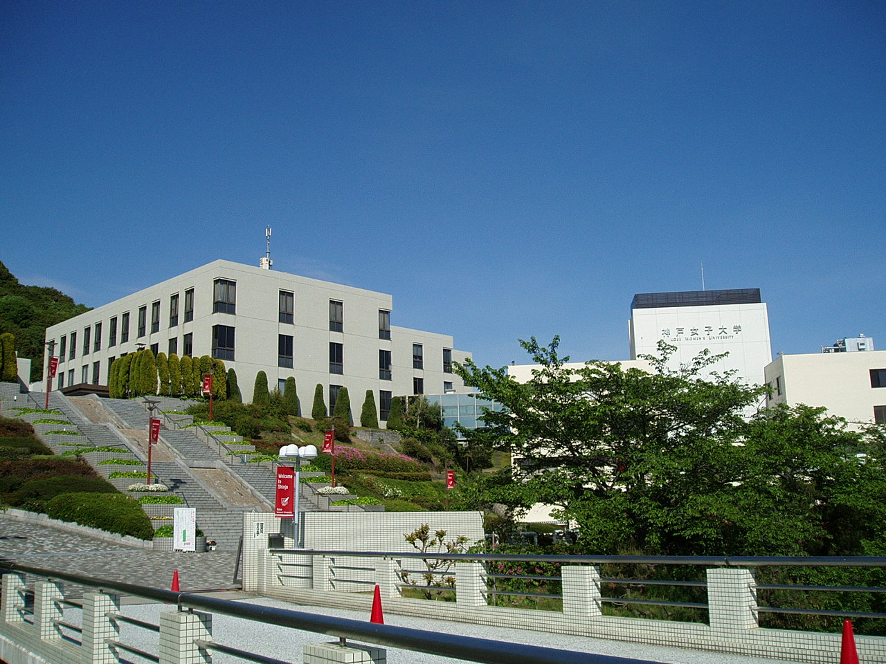 Building A (right) and M (left) at Suma Campus, Kobe Women's University, located in Suma-ku, Kobe, Hyogo, Japan.